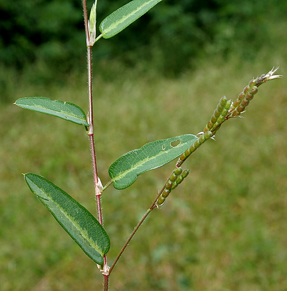 Shevra, Long Leaved Alysicarpus or Jangali gailia Alysicarpus longifolius in Hyderabad , India.